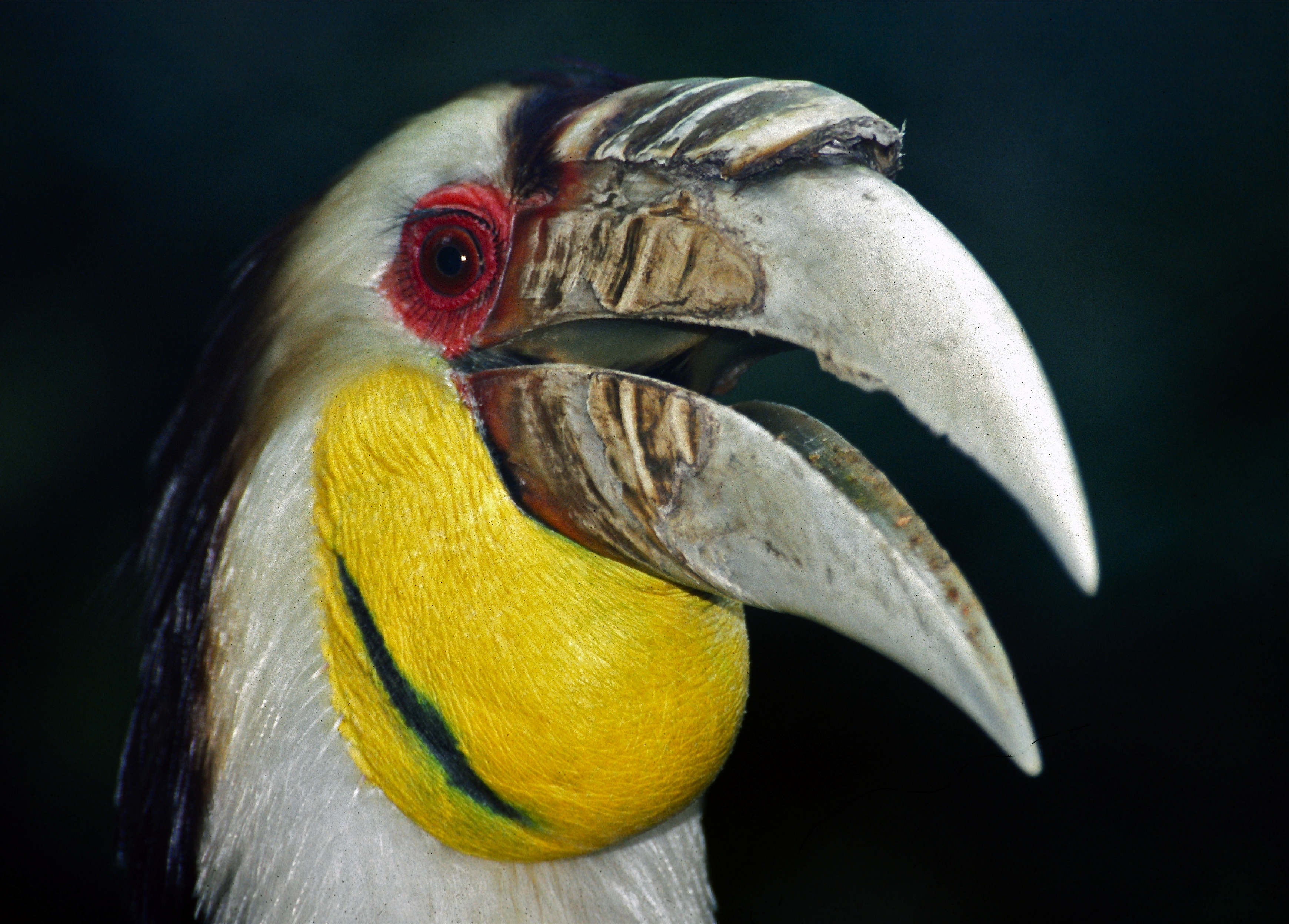 Zoo, Bangkok, THAILAND Scanned Slide from 2003